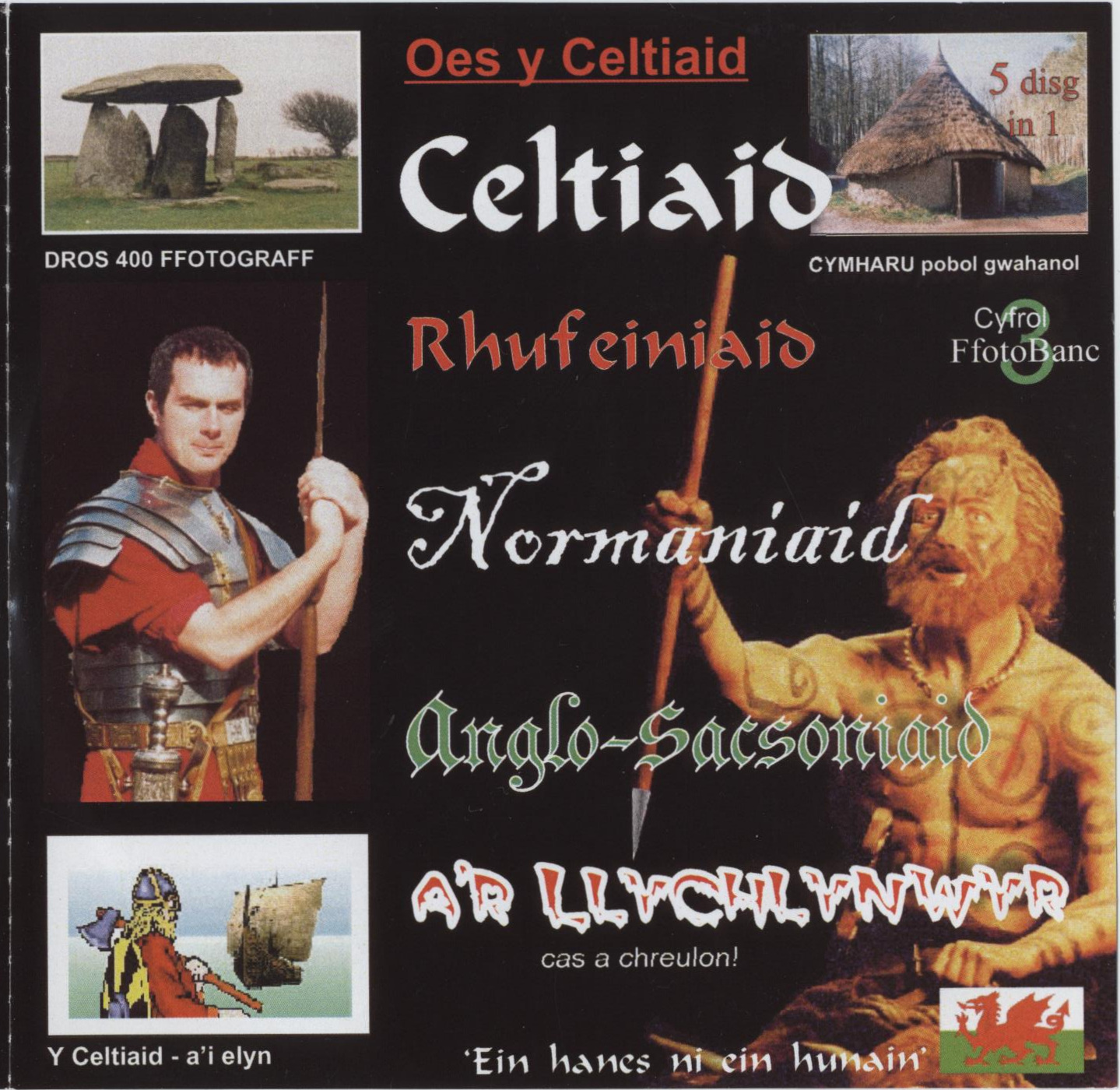 Front cover of a CD-ROM produced by Cyfrifiaduron Sycharth (trading names for English versions also included Avant Garde Computers and CS Computers): 'From Celts to Vikings'. The company traded between 1998-2010 and was a 'Curriculum Online Registered Content Provider'. This version - ISBN 0 9526481 5 6 - published 2003 and was the 3rd in the 'Ffotobanc' series. The company was owned by the uploader (Robin Owain).